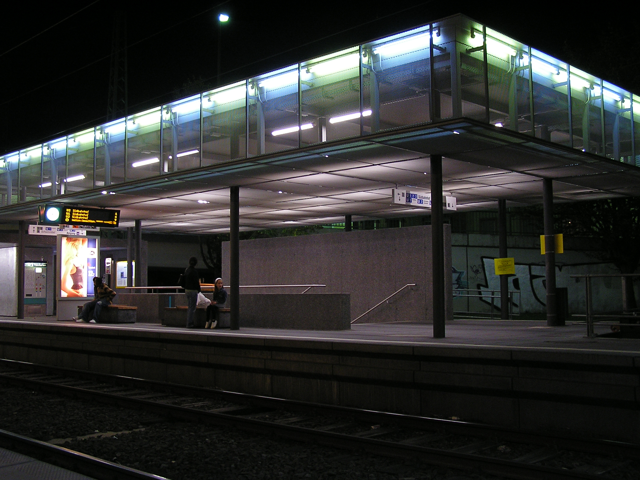 Illumination of the station Frankfurt-Heddernheim